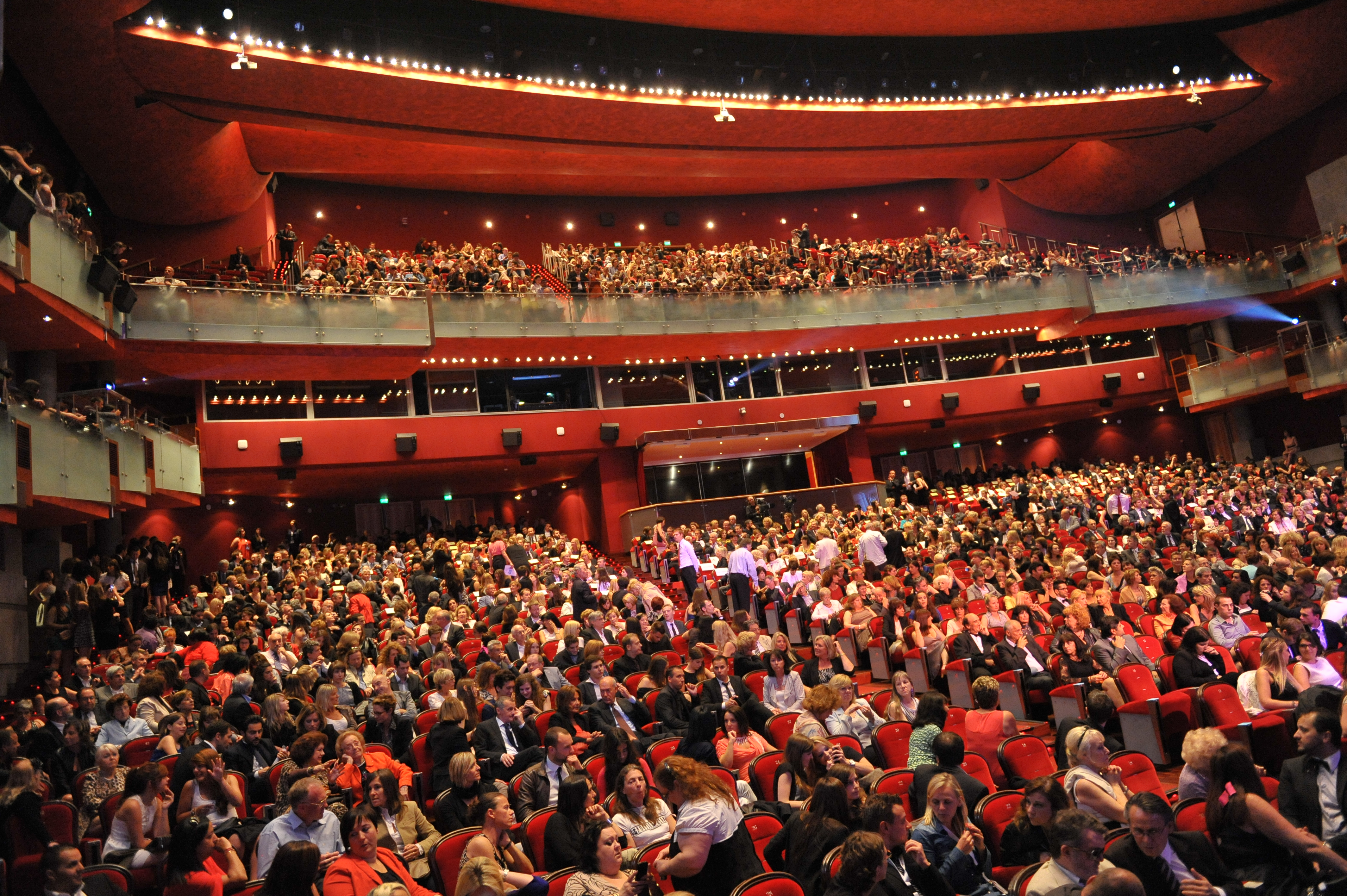 Salle des Pinces - Grimaldi Forum